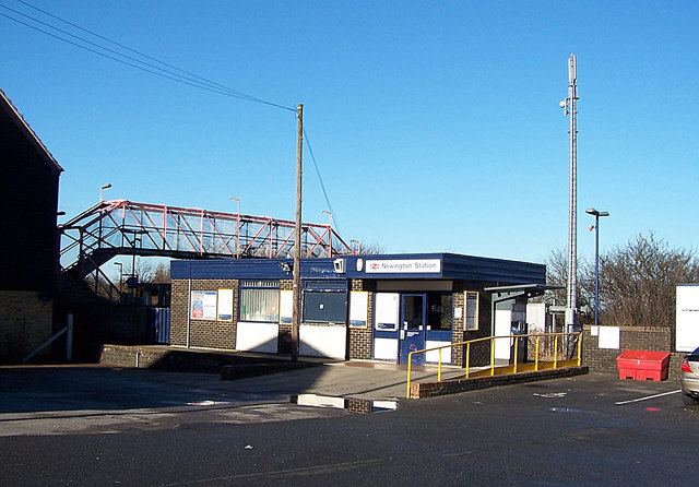 Newington railway station Not one of British Rail's most visually appealing stations.